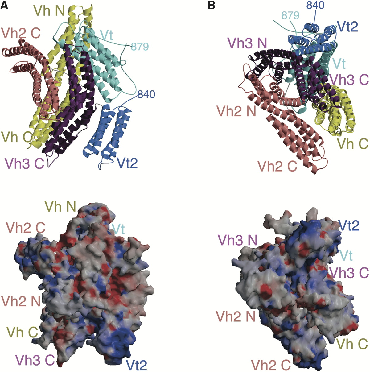 Vinculin is a globular molecule with linear dimensions of about 115 x 85 x 65 angstroms